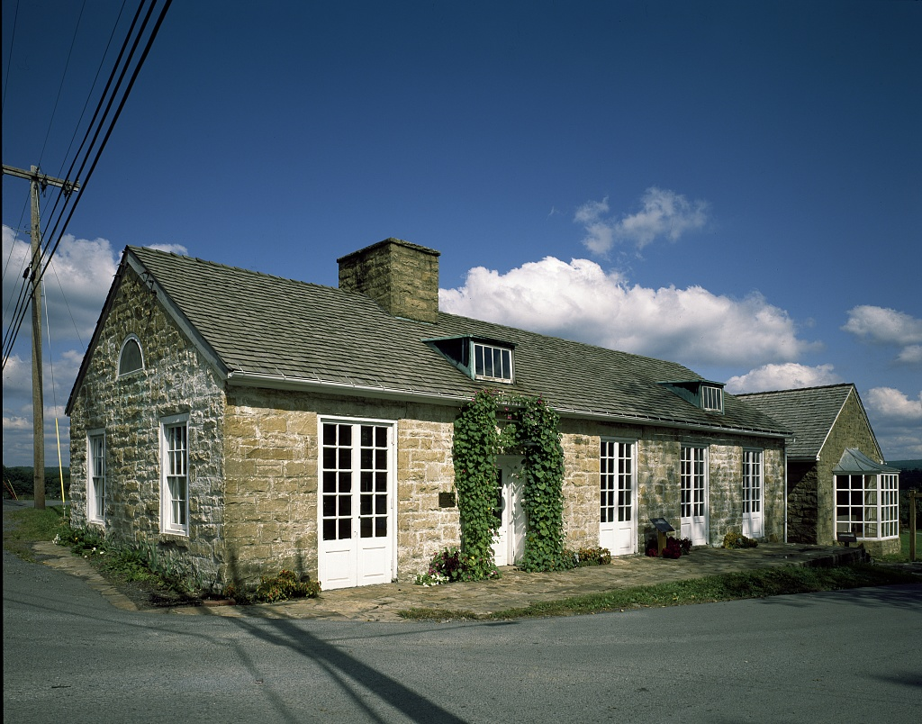 Administration building of the Arthurdale planned community, a communal town built during the Great Depression of the 1930s. Arthurdale, West Virginia